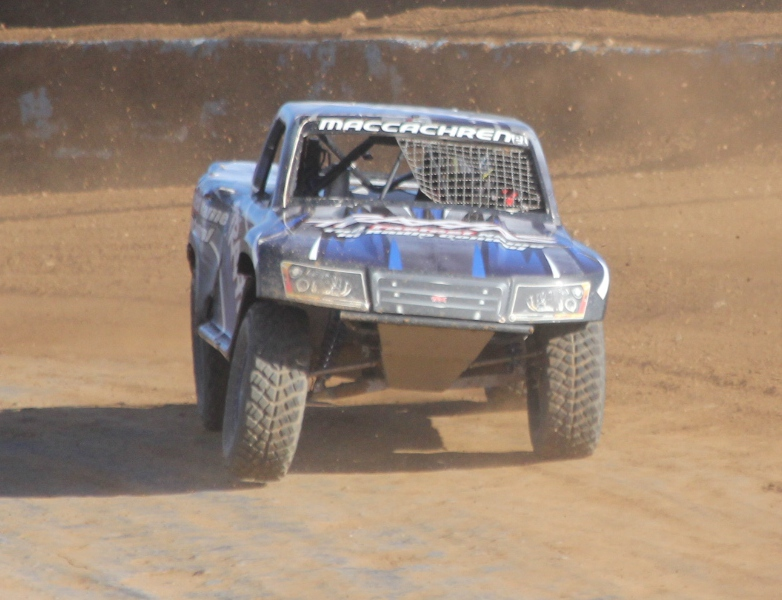 The Stadium Super Trucks vehicle of Rob MacCachren.